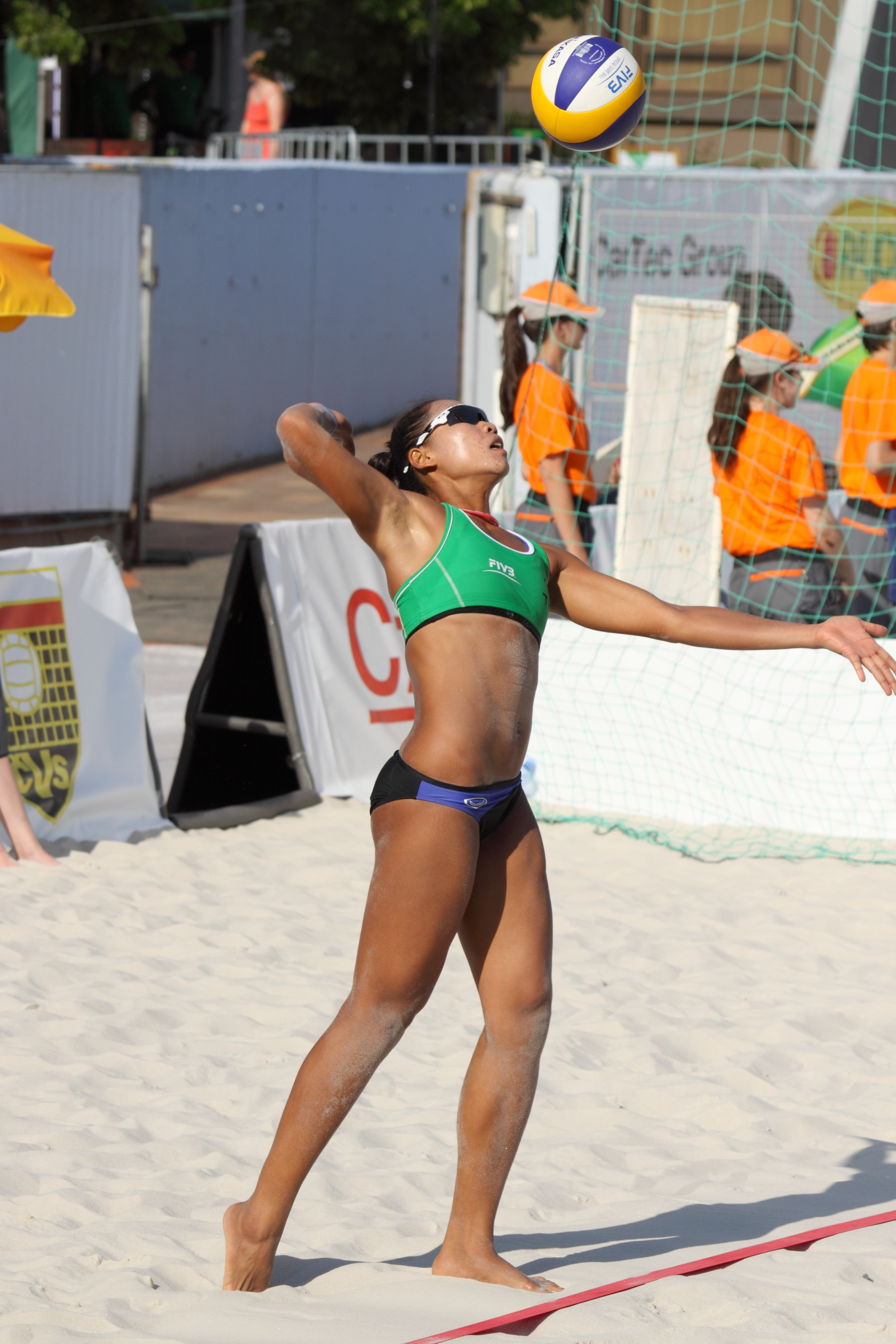 Varapatsorn Radarong at Patria Direct Open 2014 in Prague